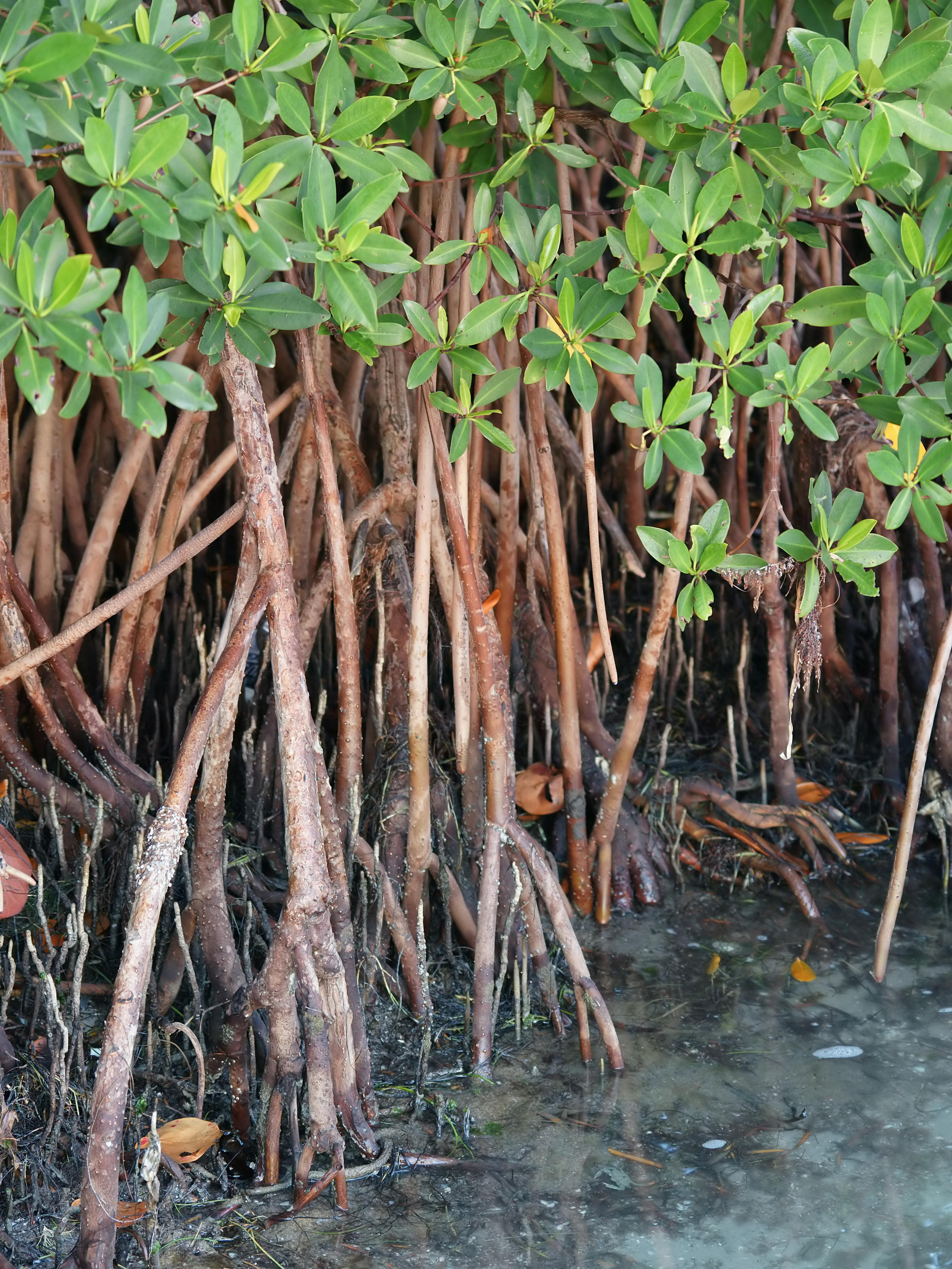 Red Mangrove at Fort Pierce in St. Lucie County, Florida, U.S.A.